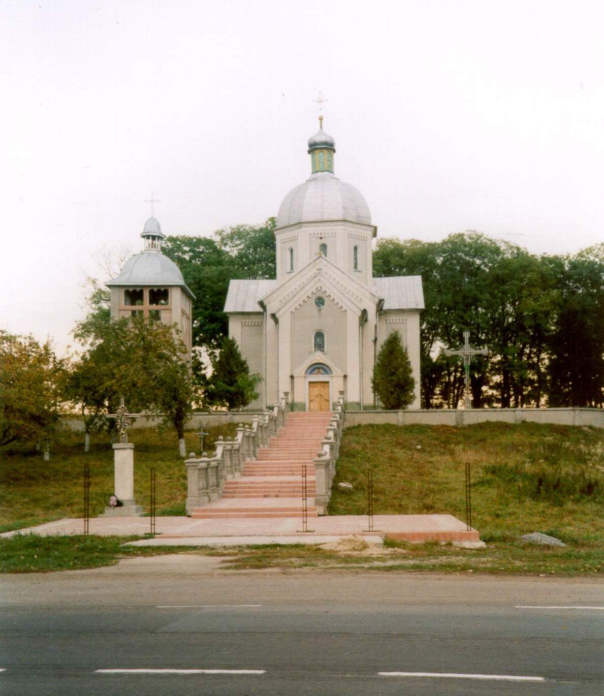 Ascension Church in Suhodoly